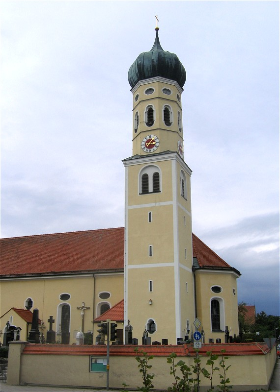 Sauerlach, St Andrew Parish Church from south-east.